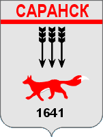 Saransk, coat of arms (1994)